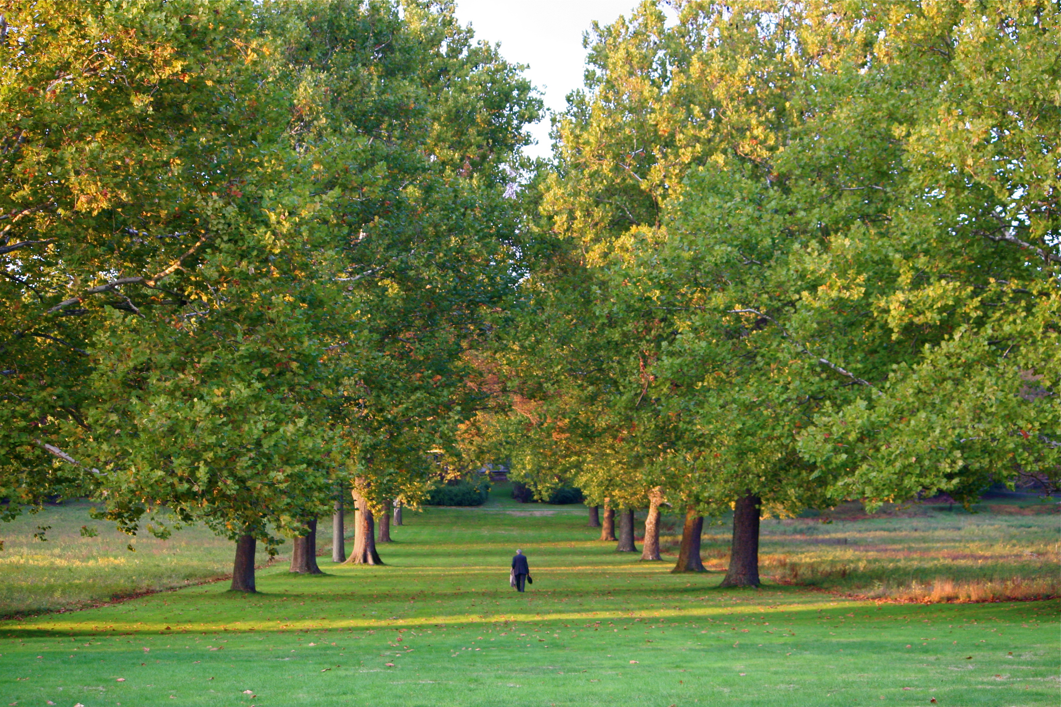 Peter Goddard on his way home from the Institute for Advanced Study